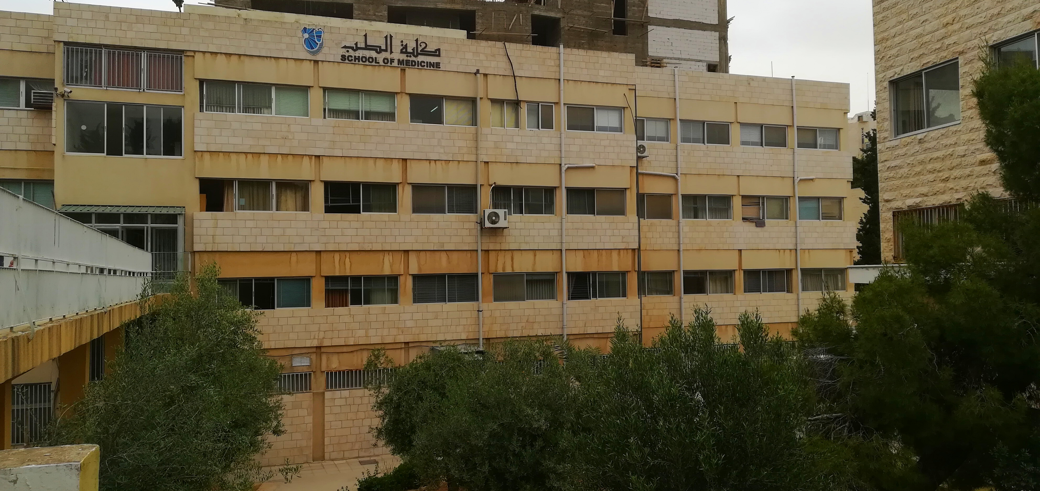 Faculty of Medicine Building in University of Jordan